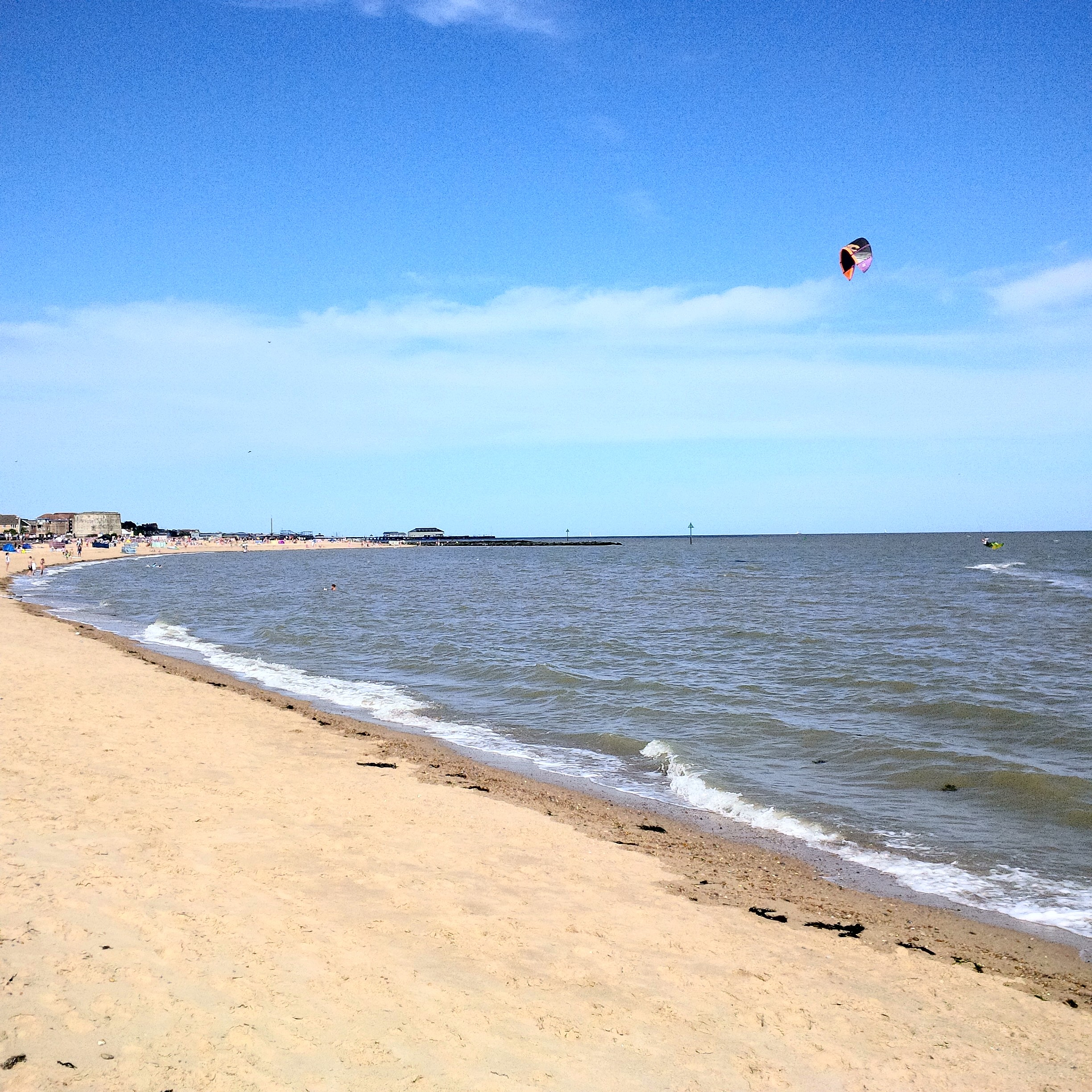 Sand of the West Beach in Clacton-on-Sea (August 2014).